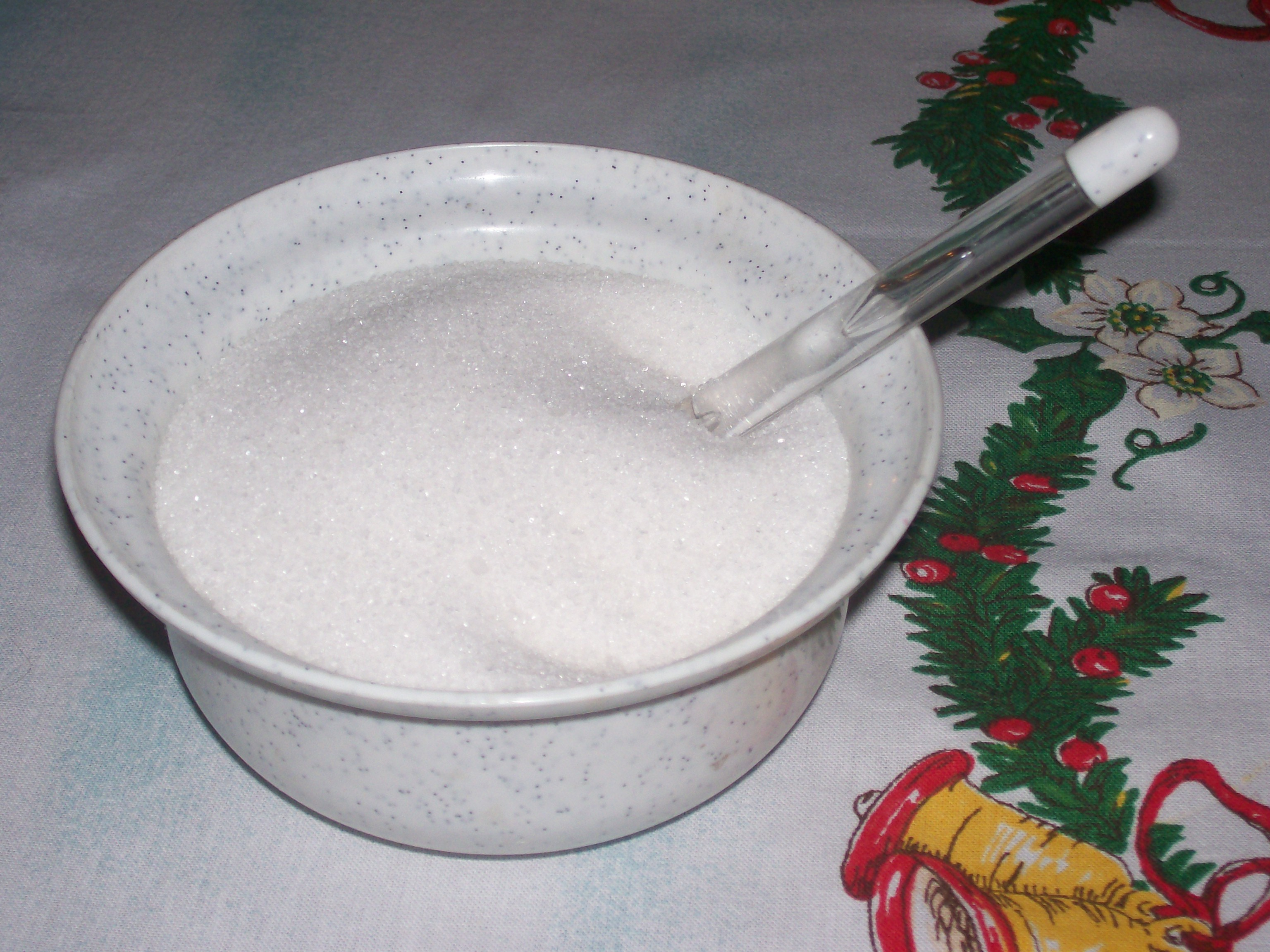 description:Cukiernica, author:Ewkaa